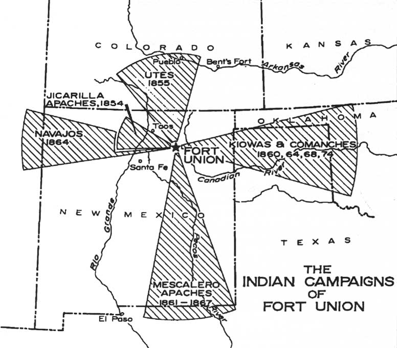 map of campaigns by the United States Army against American Indians (Native Americans) between 1854 and 1874, starting from Fort Union, New Mexico, now Fort Union National Monument, from: Leo E. Oliva, Fort Union and the Frontier Army in the Southwest – A Historic Resource Study, Division of History – National Park Service, Santa Fe, New Mexico, 1993